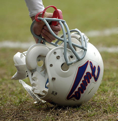 This is a picture of a FUMA football helmet